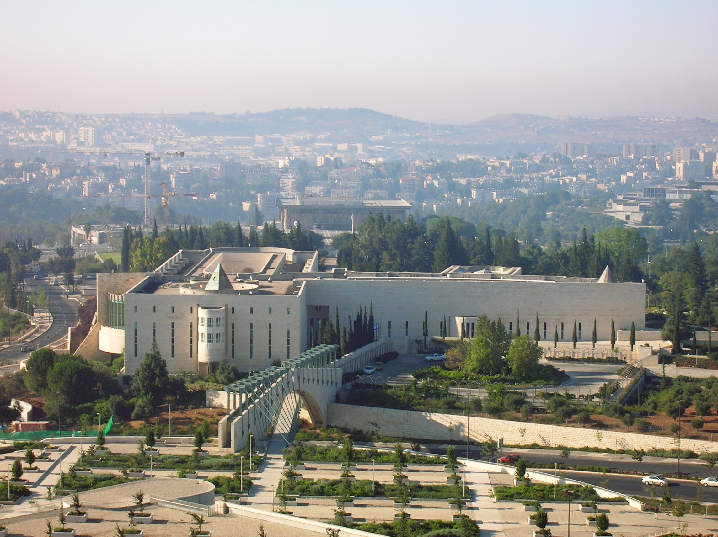 Supreme Court of Israel, Jerusalem. Taken from the Crown plaza hotel.